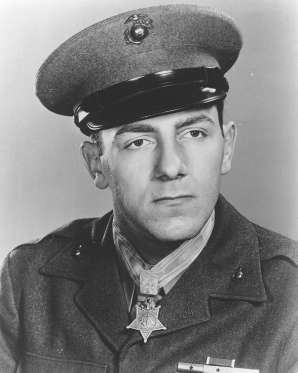 Pfc. Hector A. Cafferata, Jr. with his Medal of Honor.